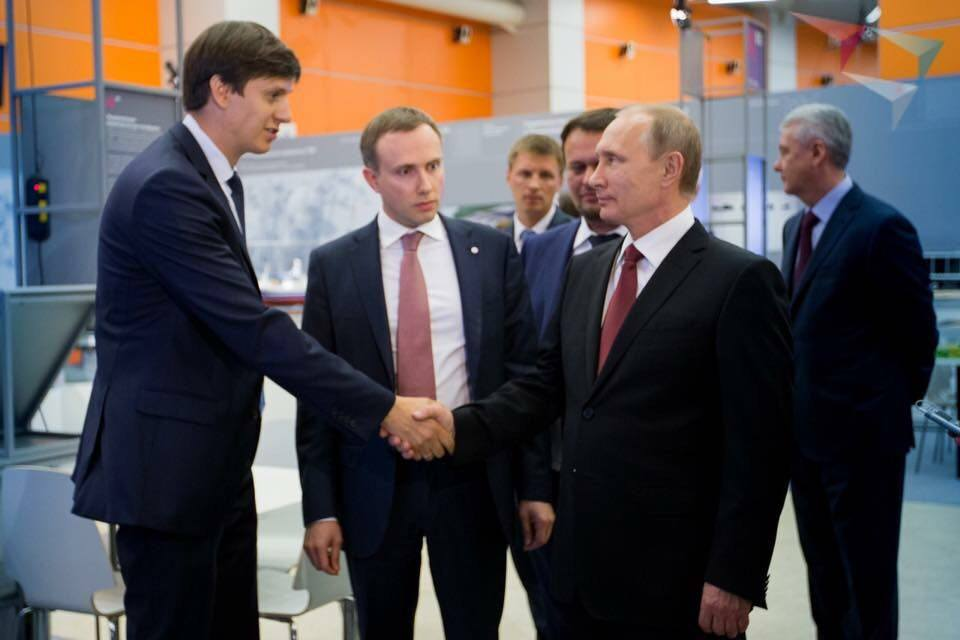 Генеральный директор ЦРТ Дмитрий Дырмовский и Президент России Владимир Путин жмут руки на Форуме Стратегических Инициатив